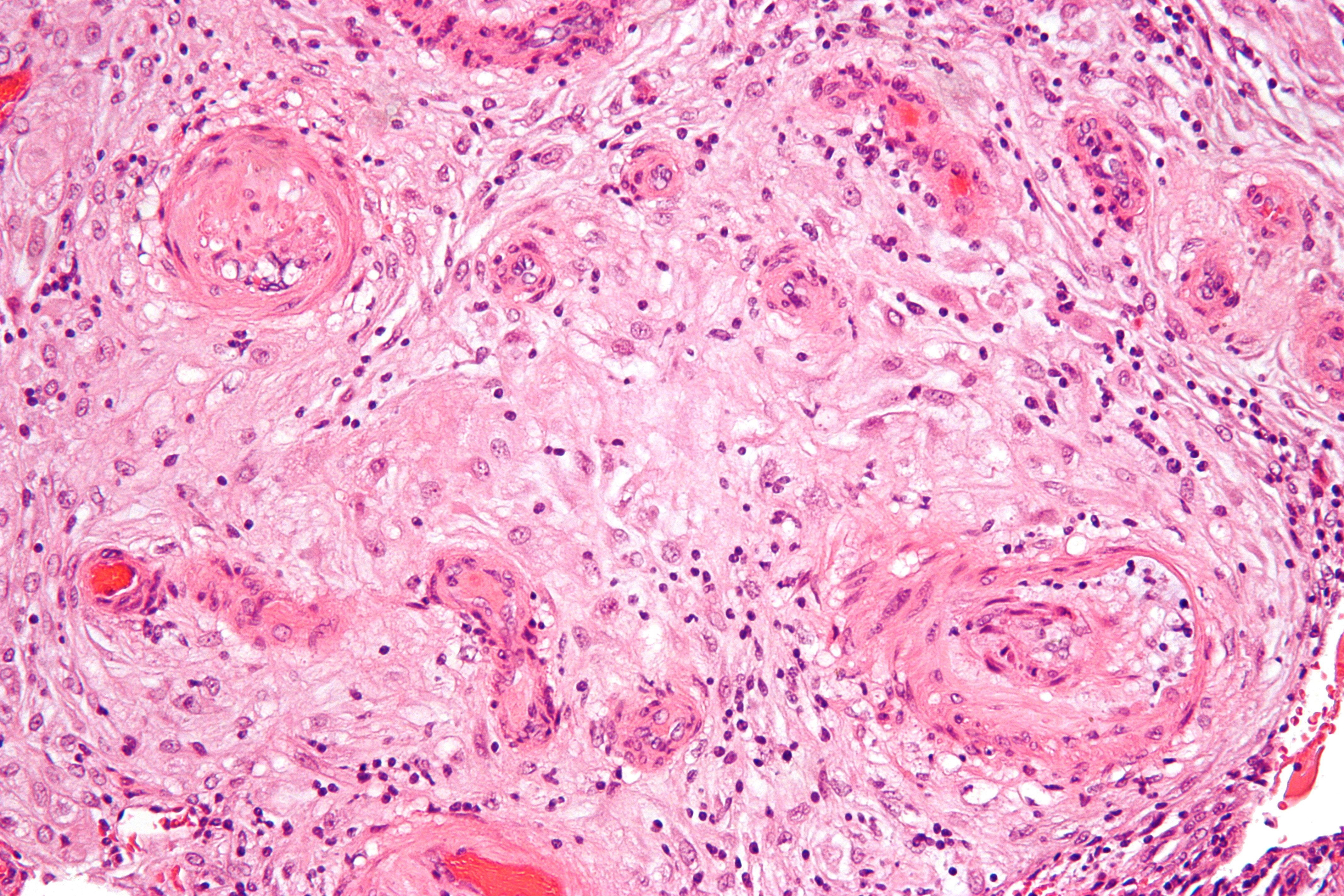 High magnification micrograph of hypertrophic decidual vasculopathy, as seen in pregnancy-induced hypertension. H&E stain. Related images Intermed. mag. Low mag.